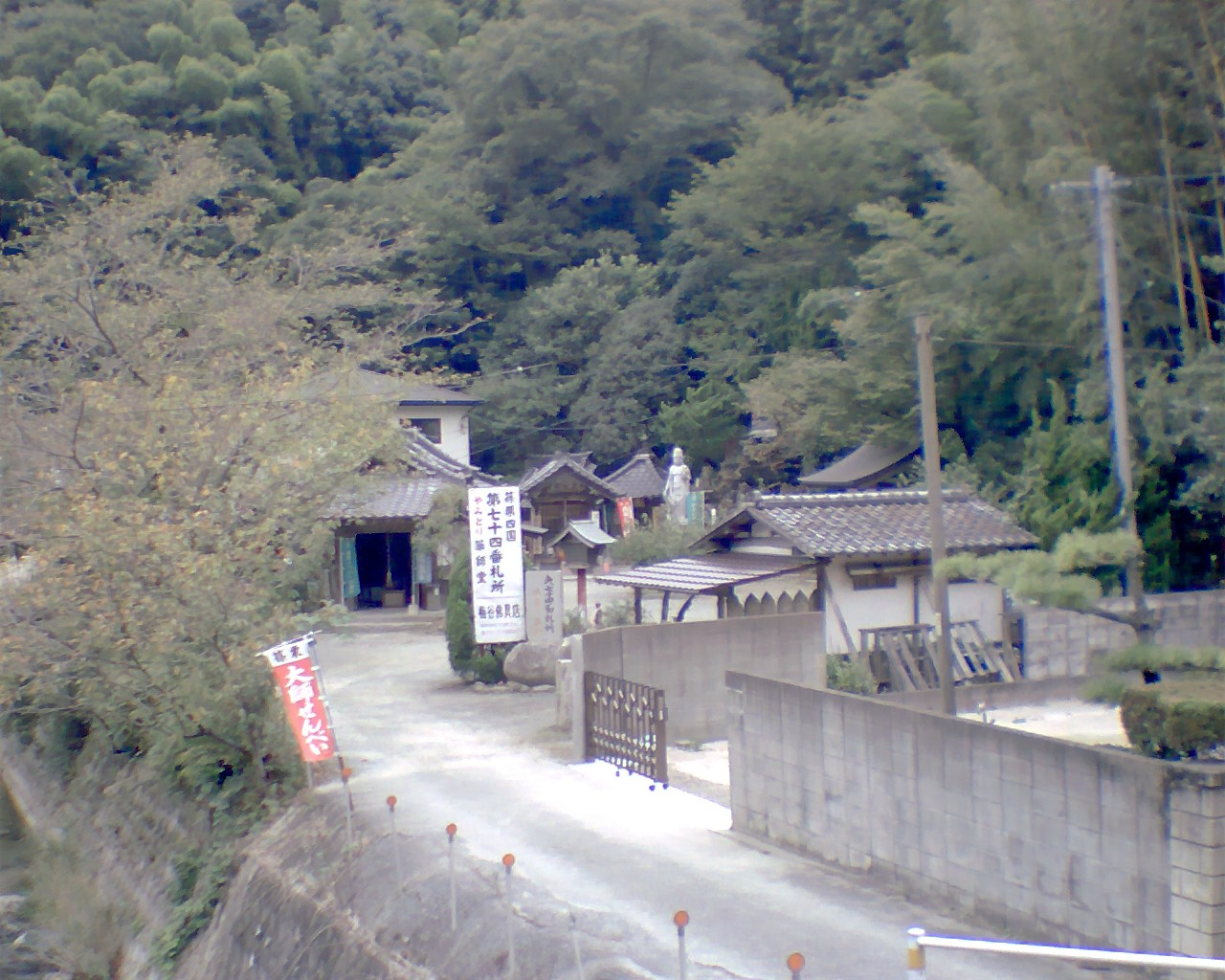 This photograph is a "Yakushido" (Bhaisajyaguru temple) , the temple in Sasaguri,Fukuoka,Japan and one of a pilgrimage of eighty-eight temples on the "Sasagurishikoku"".